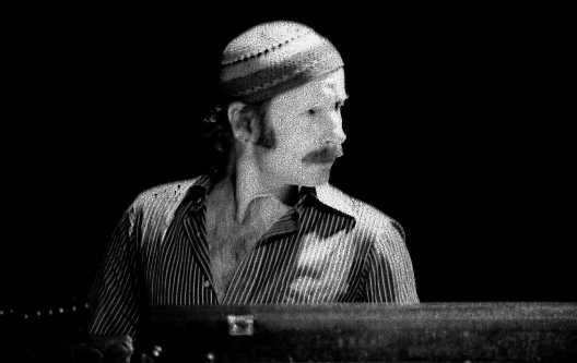 Weather Report (Joe Zawinul) Convocation Hall, Toronto, NOV. 27, 1977